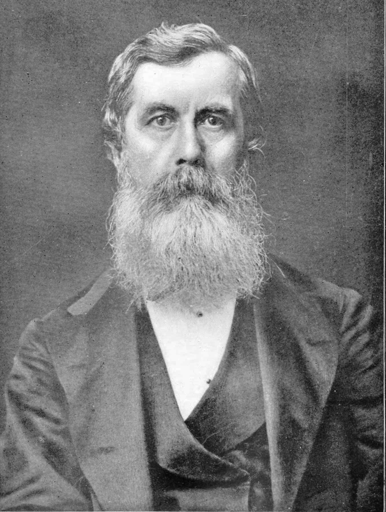 Frederic Moore (Photo taken in 1830)